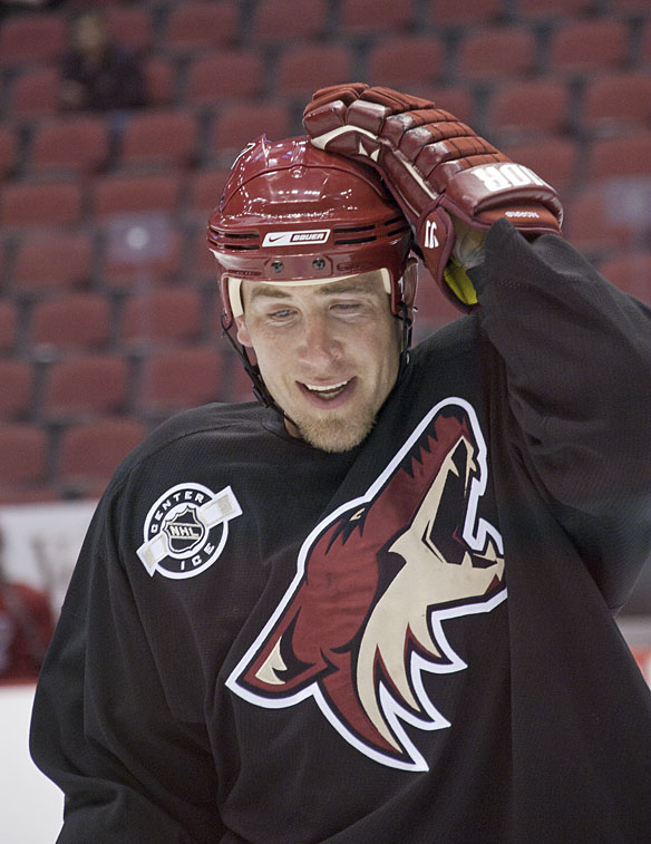 Phoenix Coyotes defenceman Derek Morris during a team practice in 2010.